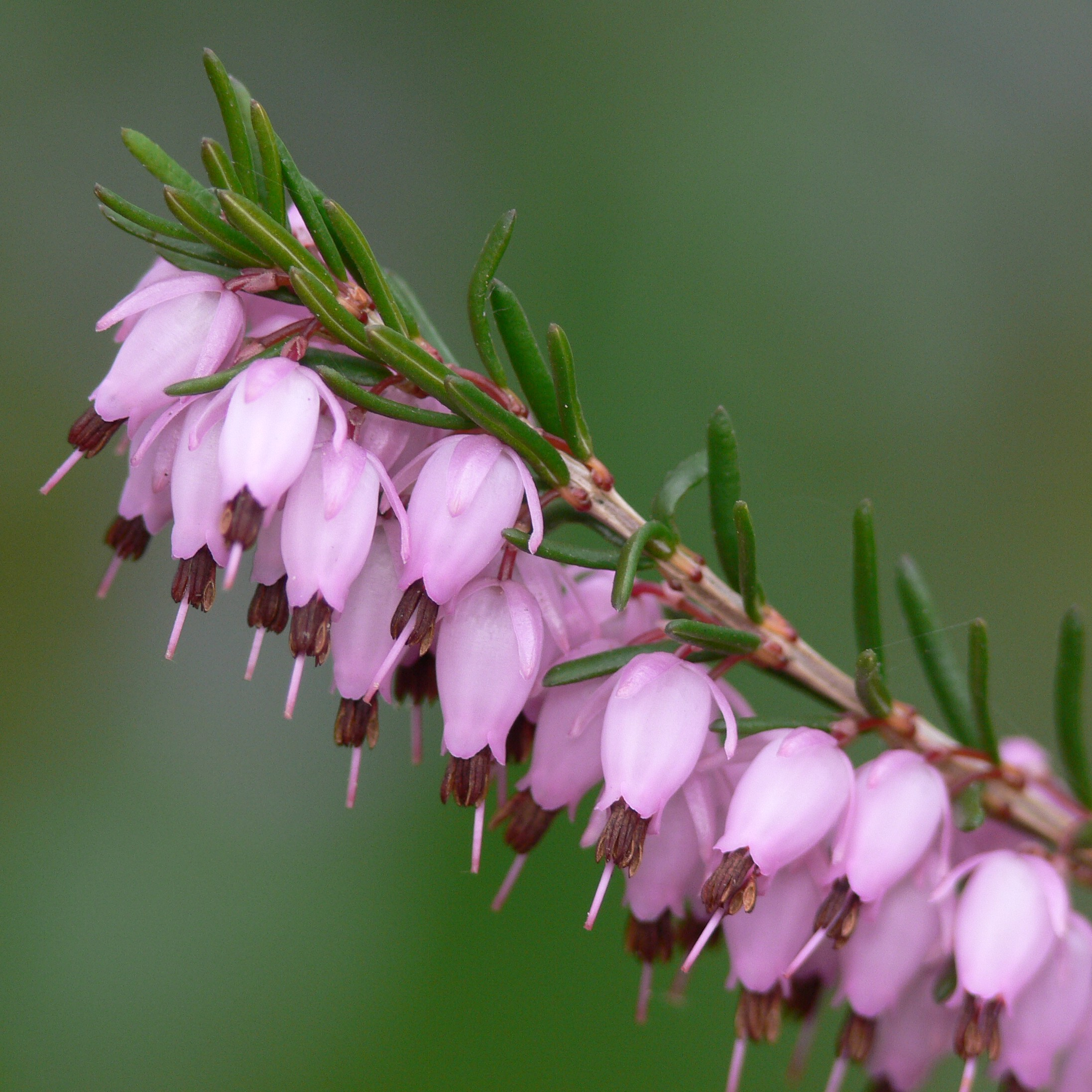 winter heath, flowers